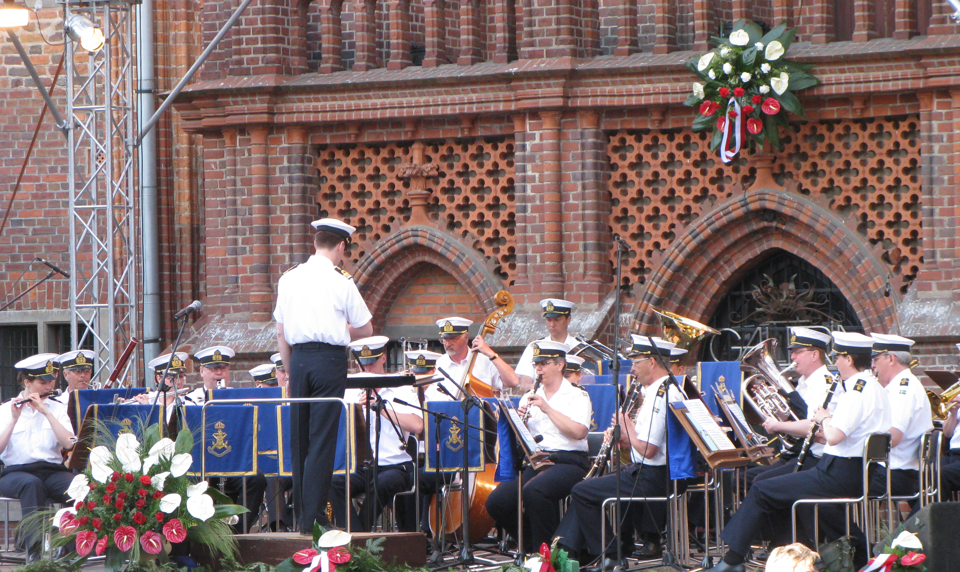 concert of Marinens musikkår in Toruń